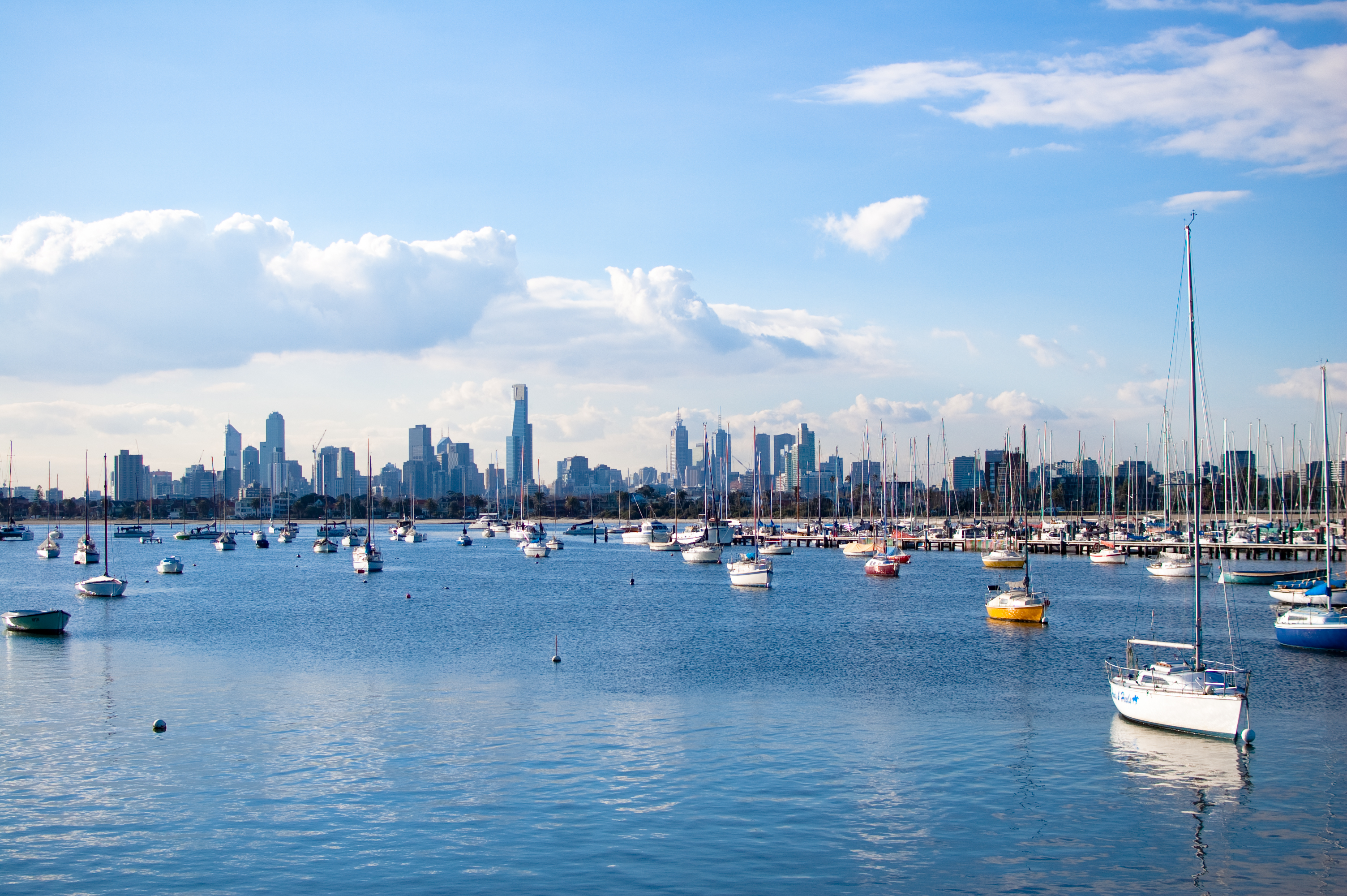 Melbourne skyline from St. Kilda